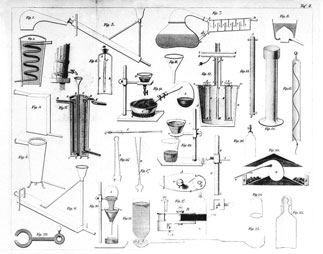 中文（香港）: Illustration in Berzelius's Textbook